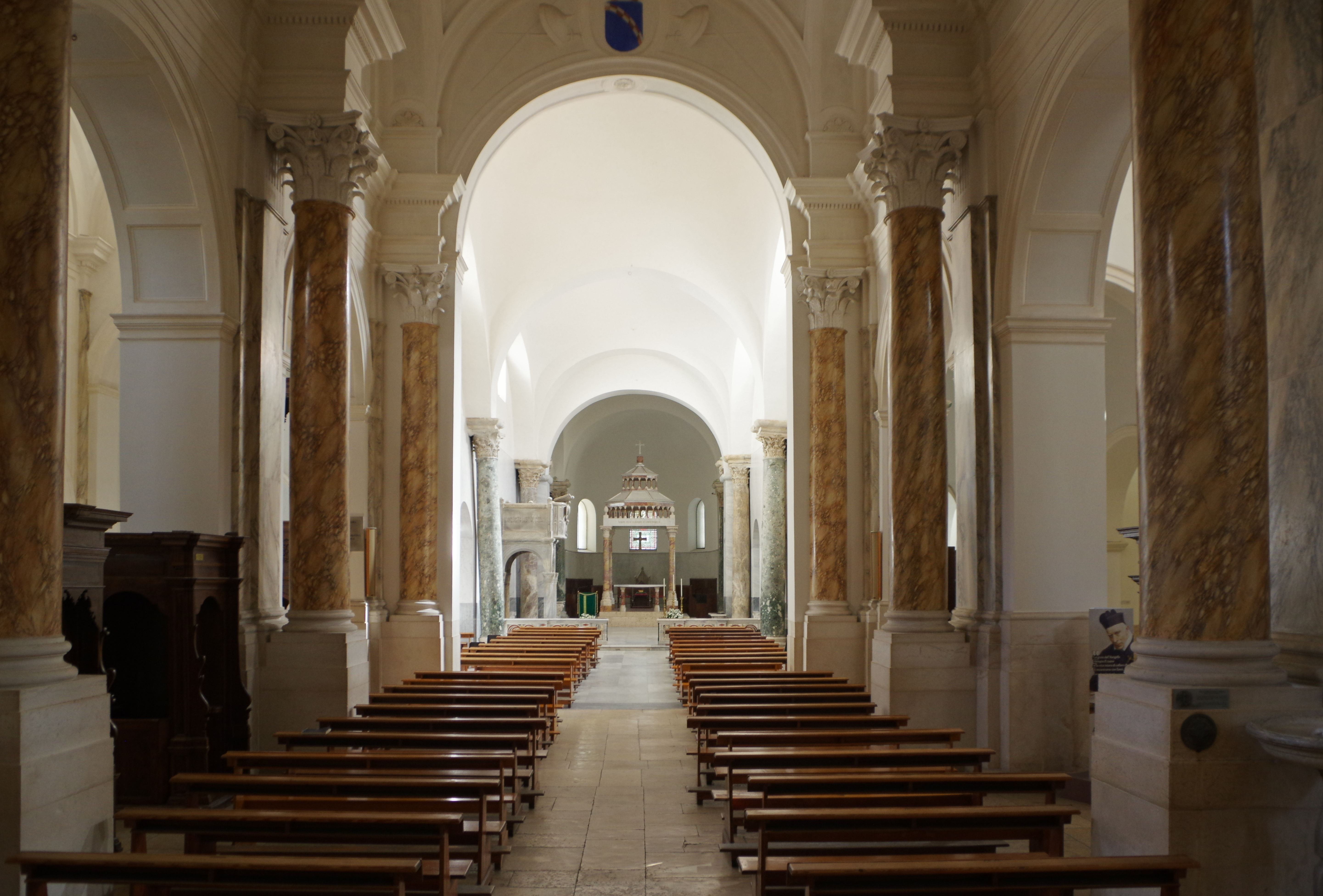 Italy, Canosa di Puglia, San Sabino cathedral, nave